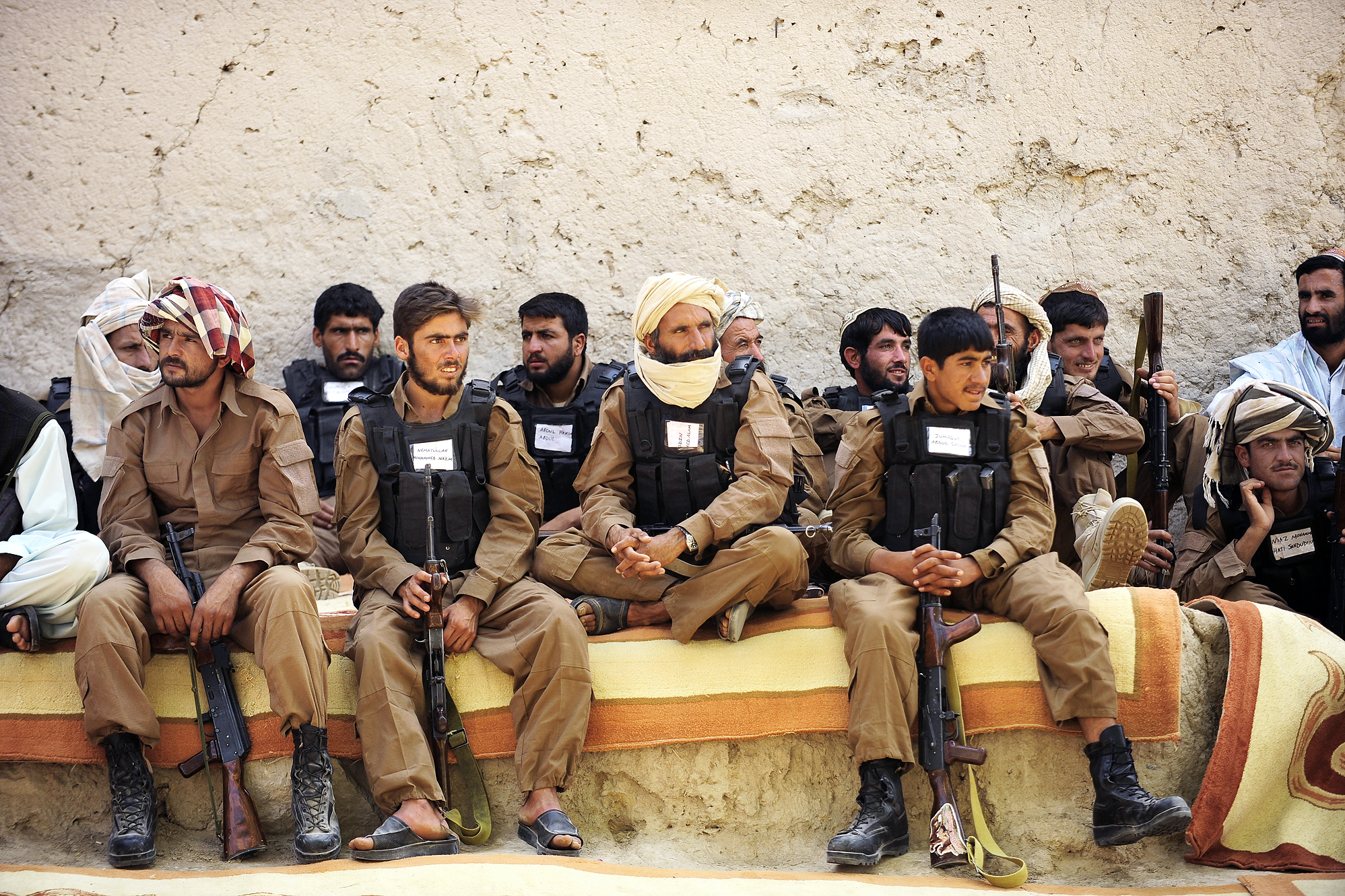 Members of the Afghan local police force attend a graduation ceremony for new officers in the Bala Baluk district of Afghanistan's Farah province, May 29, 2012.